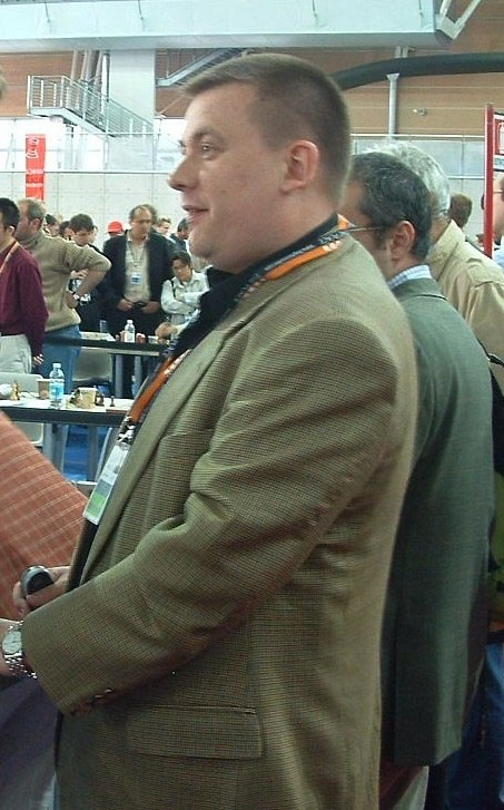 Photo of Russian grandmaster Sergei Rublevsky at the Turin 2006 Olympiad